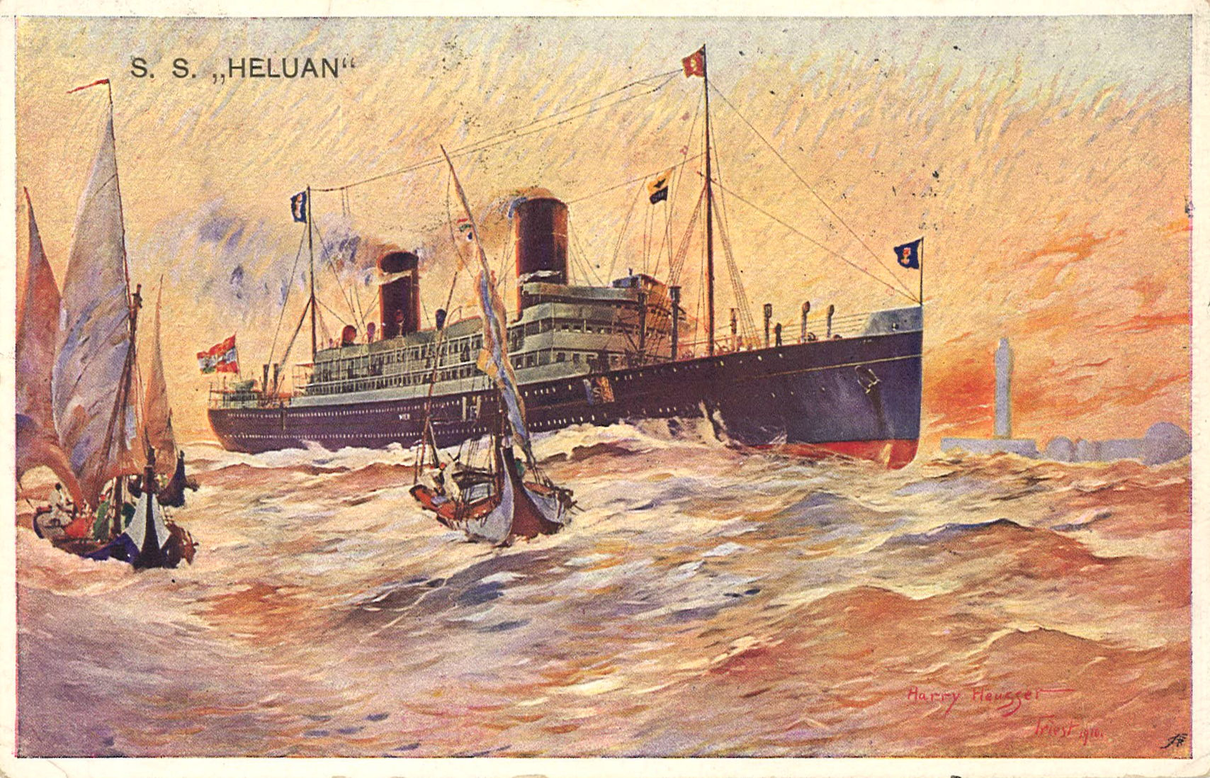 Picture postcard with SS Helouan by Harry Heusser (stamped 1913)